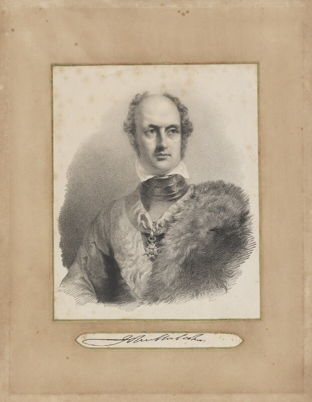 Portrait of John Malcolm, British administrator